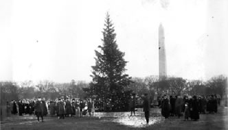 "The first National Christmas Tree," lit on Monday December 24, 1923, in the middle of the Ellipse. The Washington Monument is seen in the background.